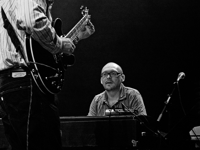 Bugge Wesseltoft (with John Scofield) at moers festival 2006 own photo, june 2, 2006- photo: nomo/michael hoefner